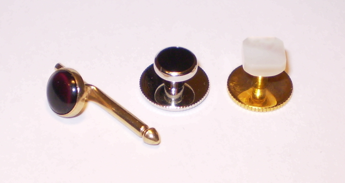 A picture of three shirt studs (from left to right): a sliding pin style in red glass, a screw-back onyx evening stud, and a mother-of-pearl on brass evening stud. Scale: back of screw-back stud is 7mm.